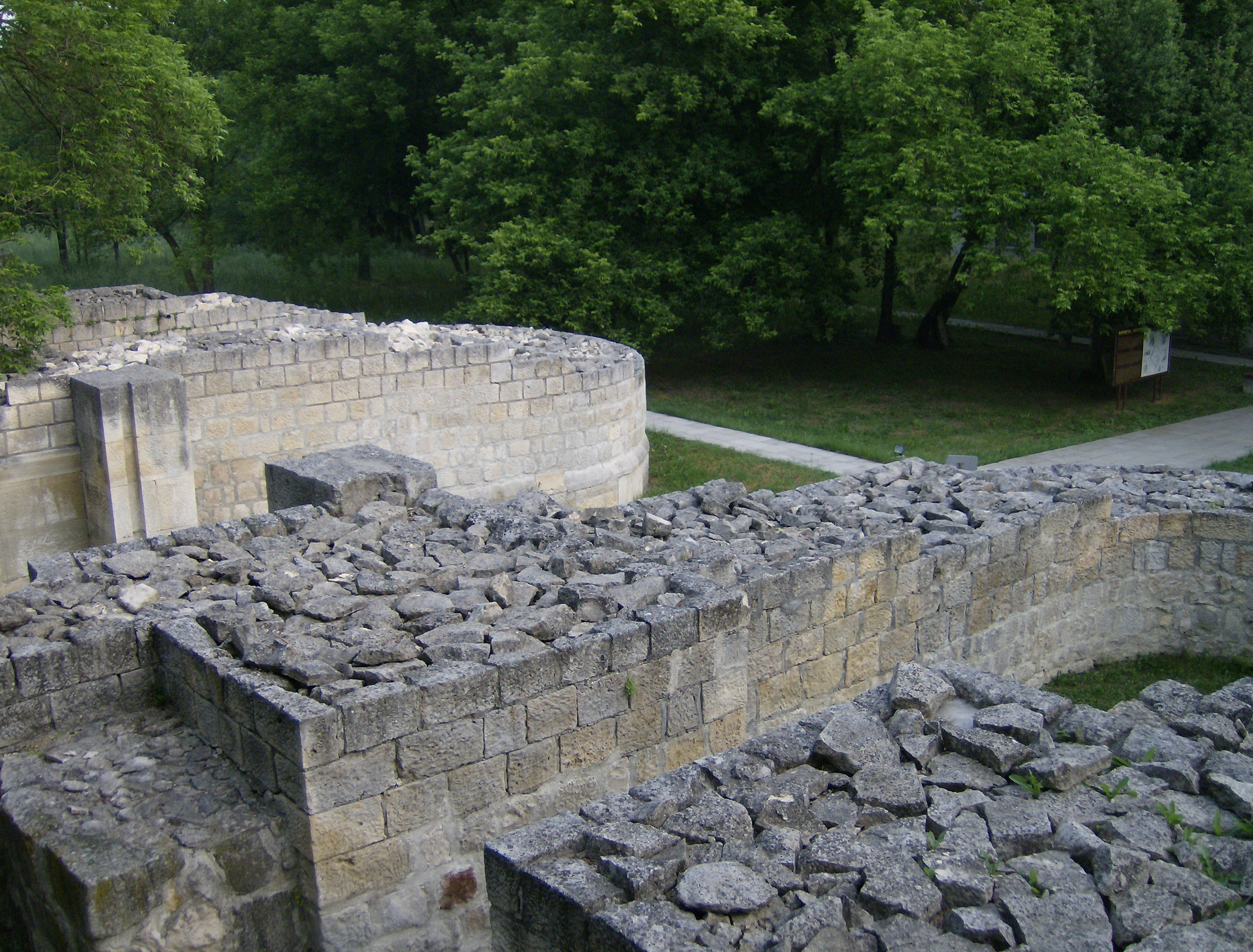 Abrittus